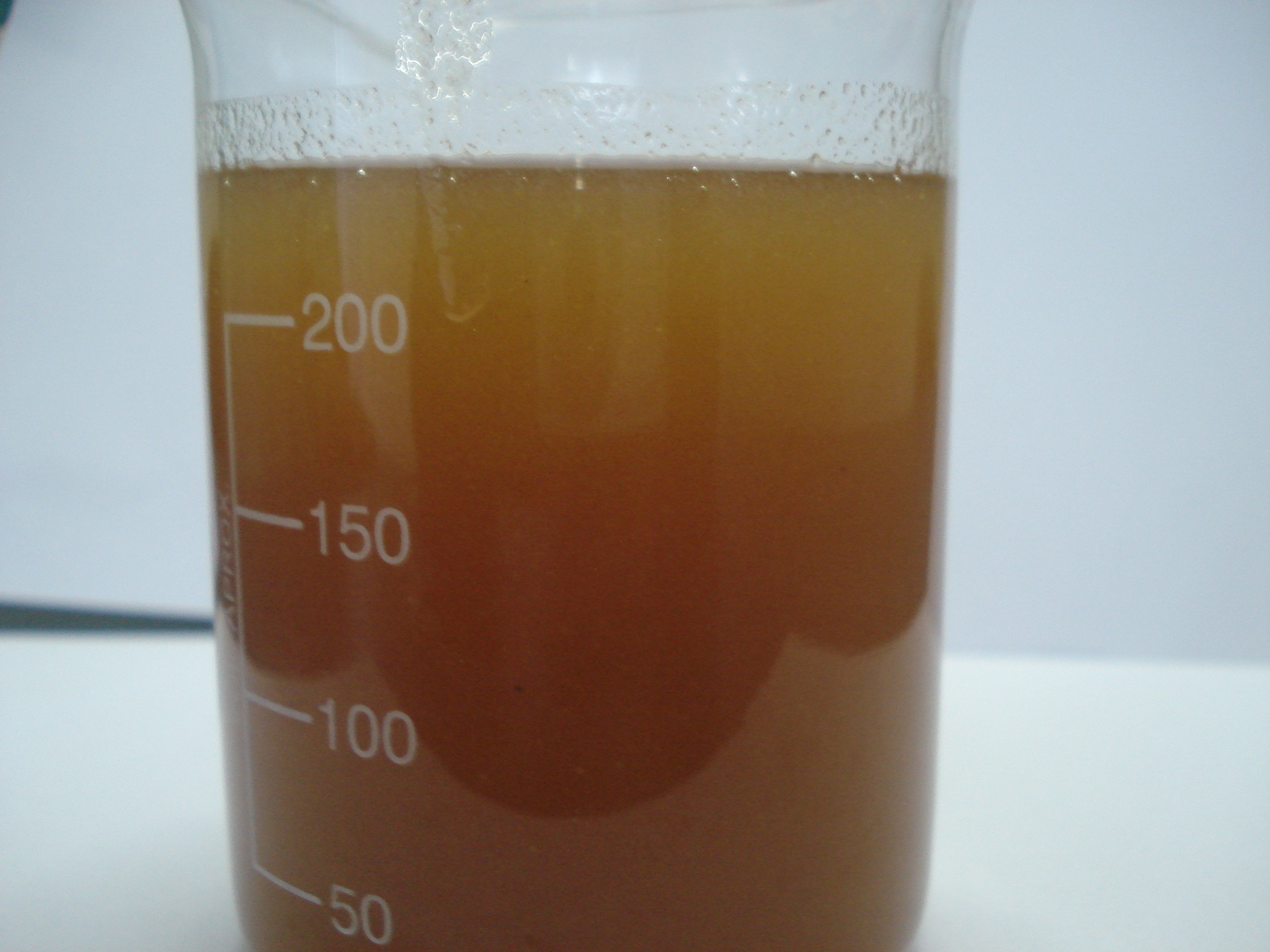 Crabwood virgim oil